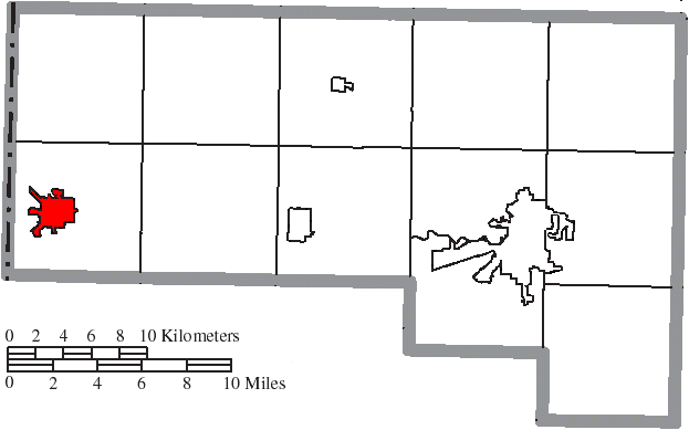 Map of the municipal and township boundaries of Defiance County, Ohio, United States, as of the 2000 census, with the location of the village of Hicksville highlighted. Township borders are shown only in unincorporated areas in order to differentiate incorporated and unincorporated areas more clearly.